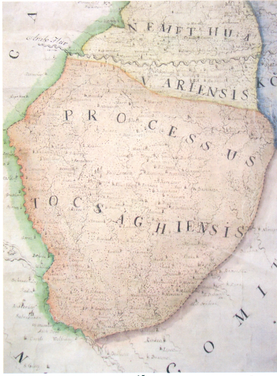 The Distric of Tótság (Slovenska okroglina) in 1790